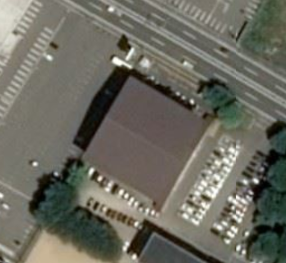 Satellite view